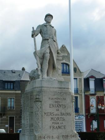 The monument aux morts at Mers-les-Bains in the Somme region of France. Features a work by the sculptor Emmanuel Fontaine. Inaugurated 17th September 1922.